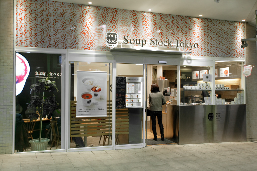 Soup Stock Tokyo Jiyūgaoka branch in Jiyūgaoka Station ( Eki-naka shop )